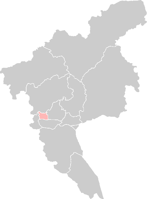 A Blank Map of Guangzhou Map